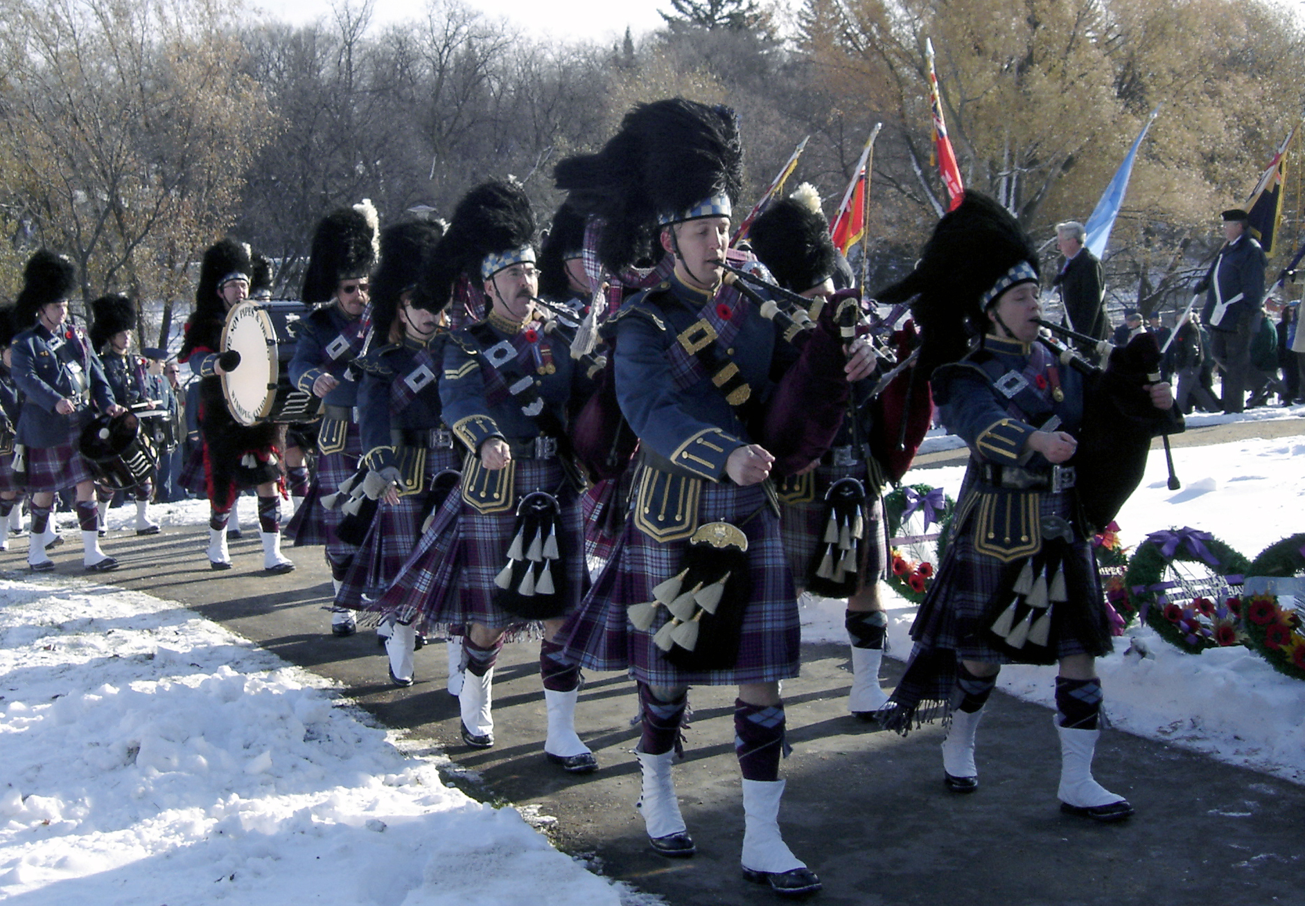 2008 Remembrance Day service, Bruce Park Cenotaph. The band is the 402 Pipes and Drums Band from Winnipeg.